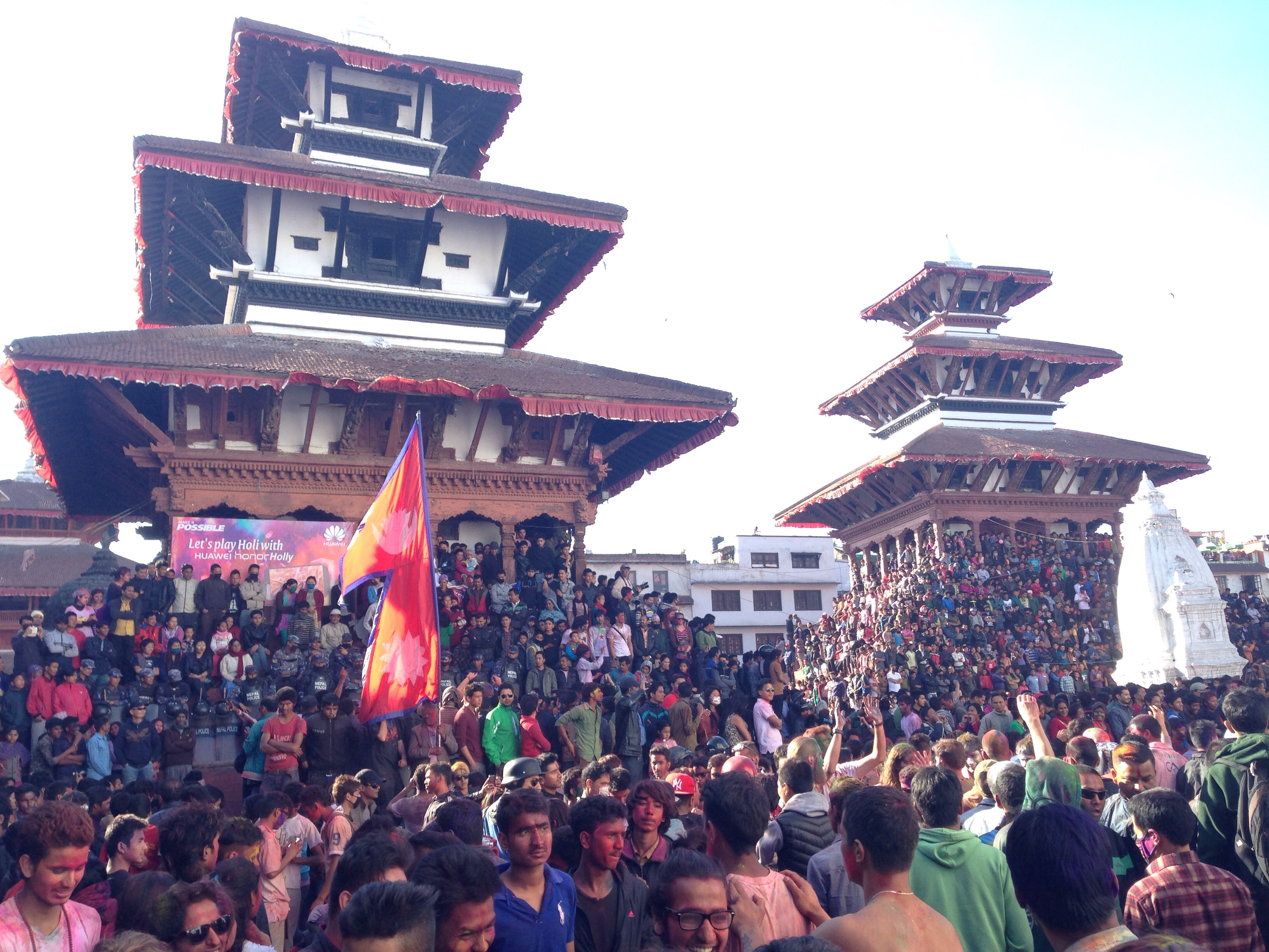 They are two temples from Hanuman Dhoka Durbar Square Area, listed in World Heritage Site. But the recent earthquake of 7.8 Magnitude destroyed both of them. :(